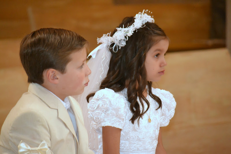 First Communion in Mexico City, Mexico. Boy's armband and Girl's First Communicant dress is seen.